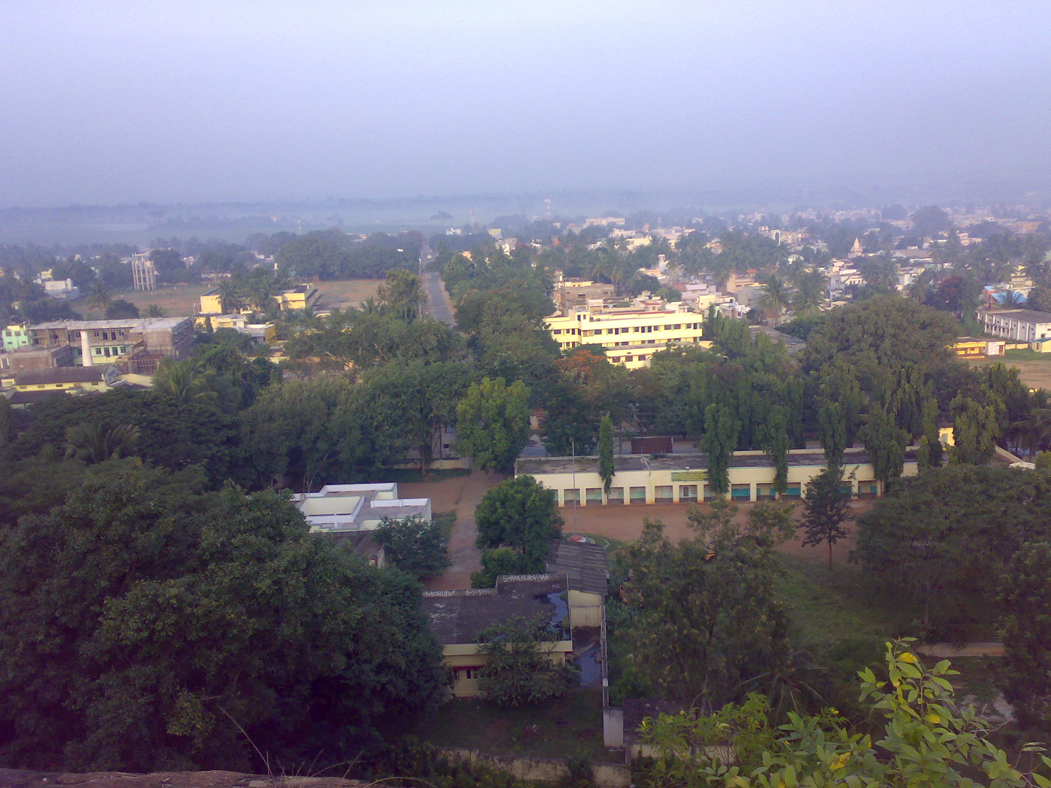 Bird's Eyeview of Kollegal City from the top of Maradigudda